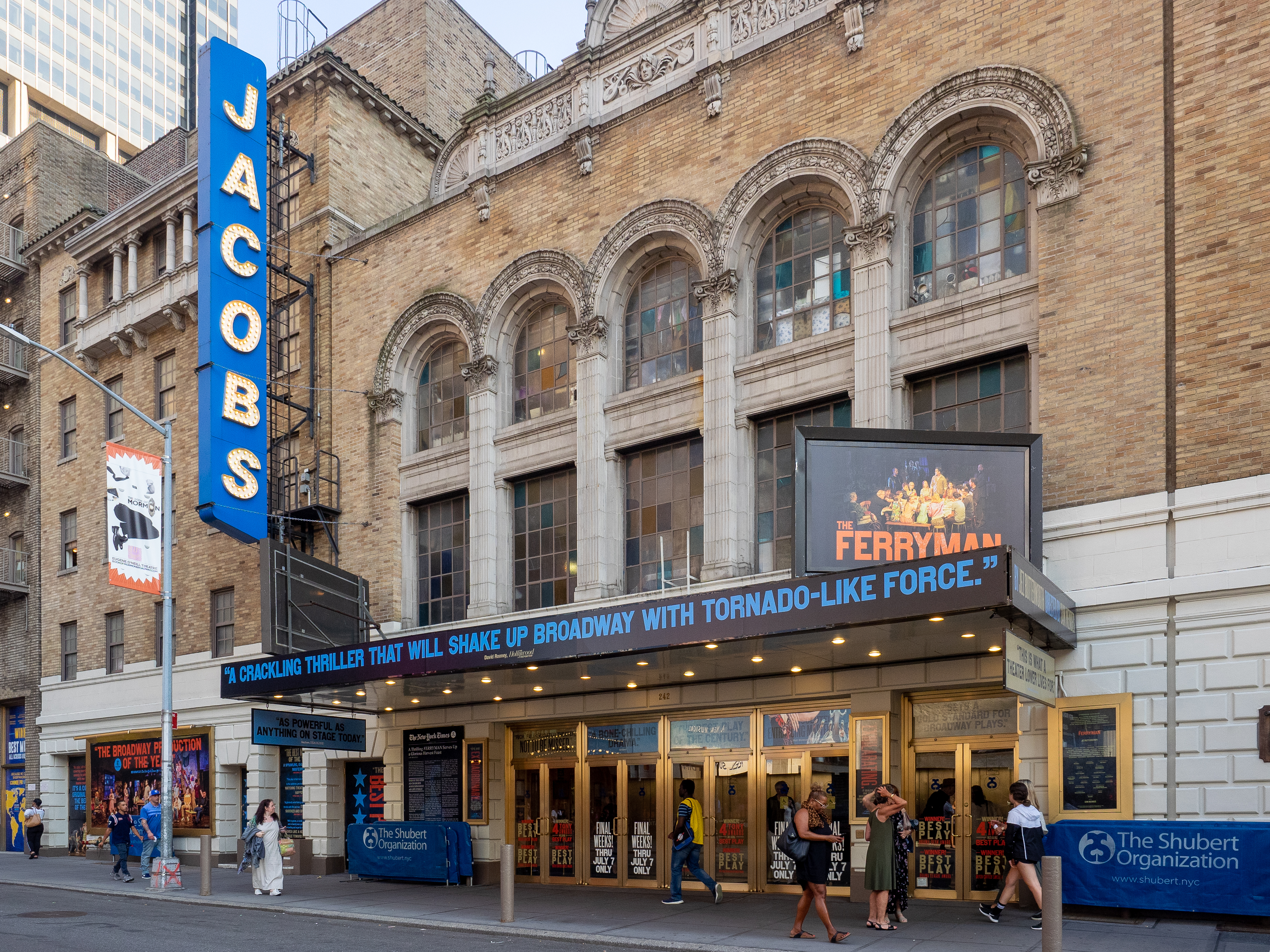 Theater District, Midtown Manhattan, NYC